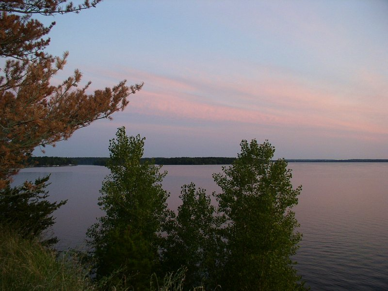 View south from Lake Trail at sunset: Lake Wissota State Park, WI, USA